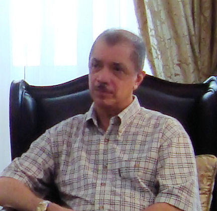 Seychelles President James Michel discussing issues of safety, security and counter-piracy in and around the Indian Ocean with U.S. officials in Victoria, Seychelles.